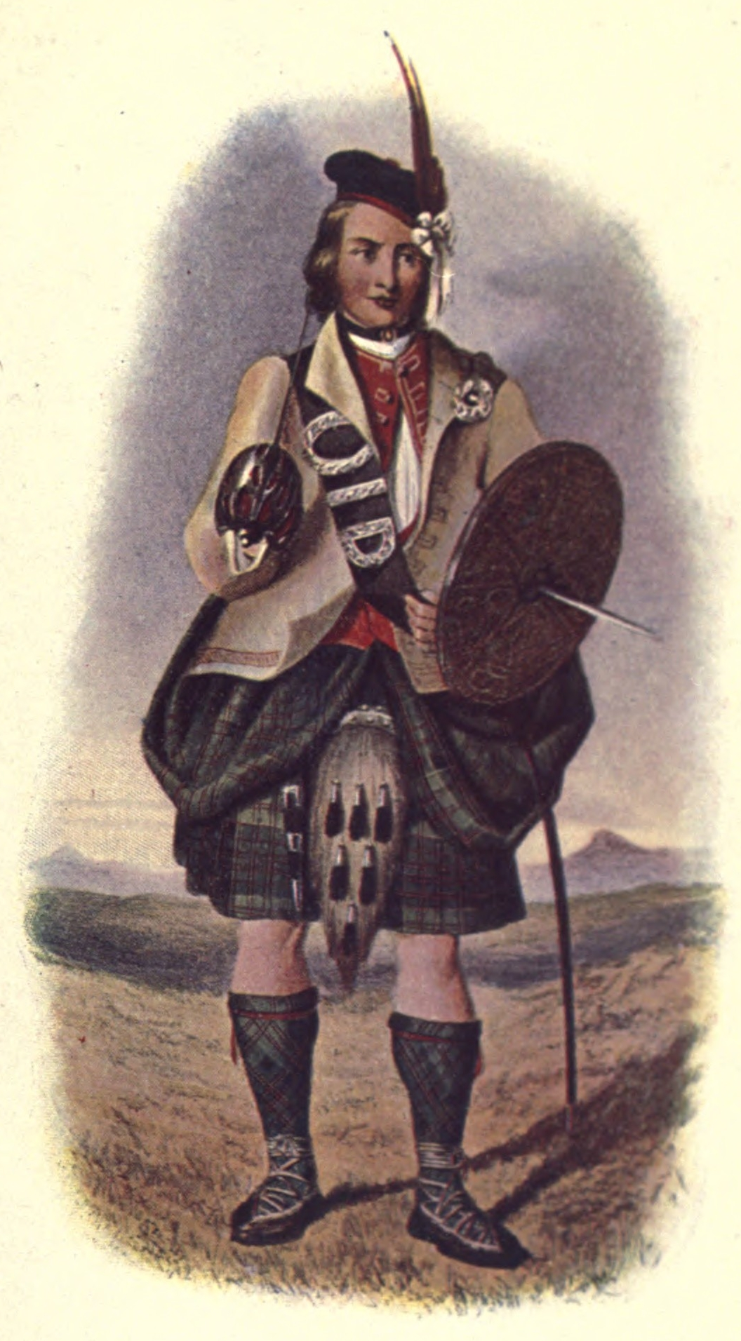 An illustration of on a member of Clan Macdonald of Clanranald, by R.R. McIan. This illustration is titled "Mac Donald of Clan Ranald". This particular illustration comes from The Highland clans of Scotland; their history and traditions (1923), yet McIan's illustrations were first published in the mid-19th century.